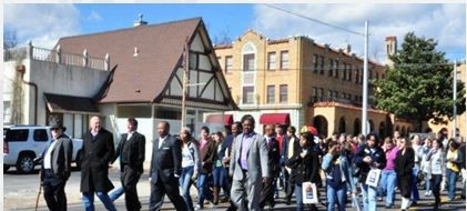 Peace March in Harrison displaying love for diversity in the city.